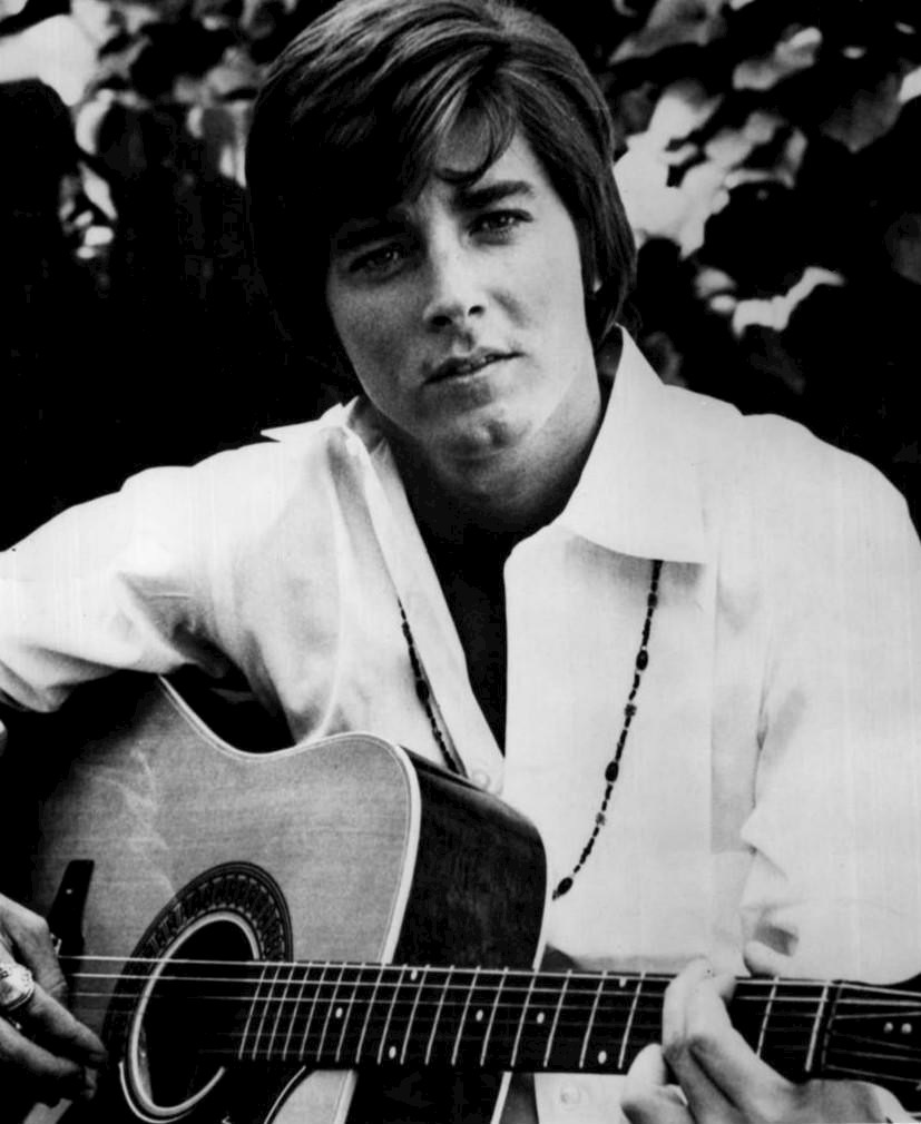 Publicity photo of singer/actor Bobby Sherman.